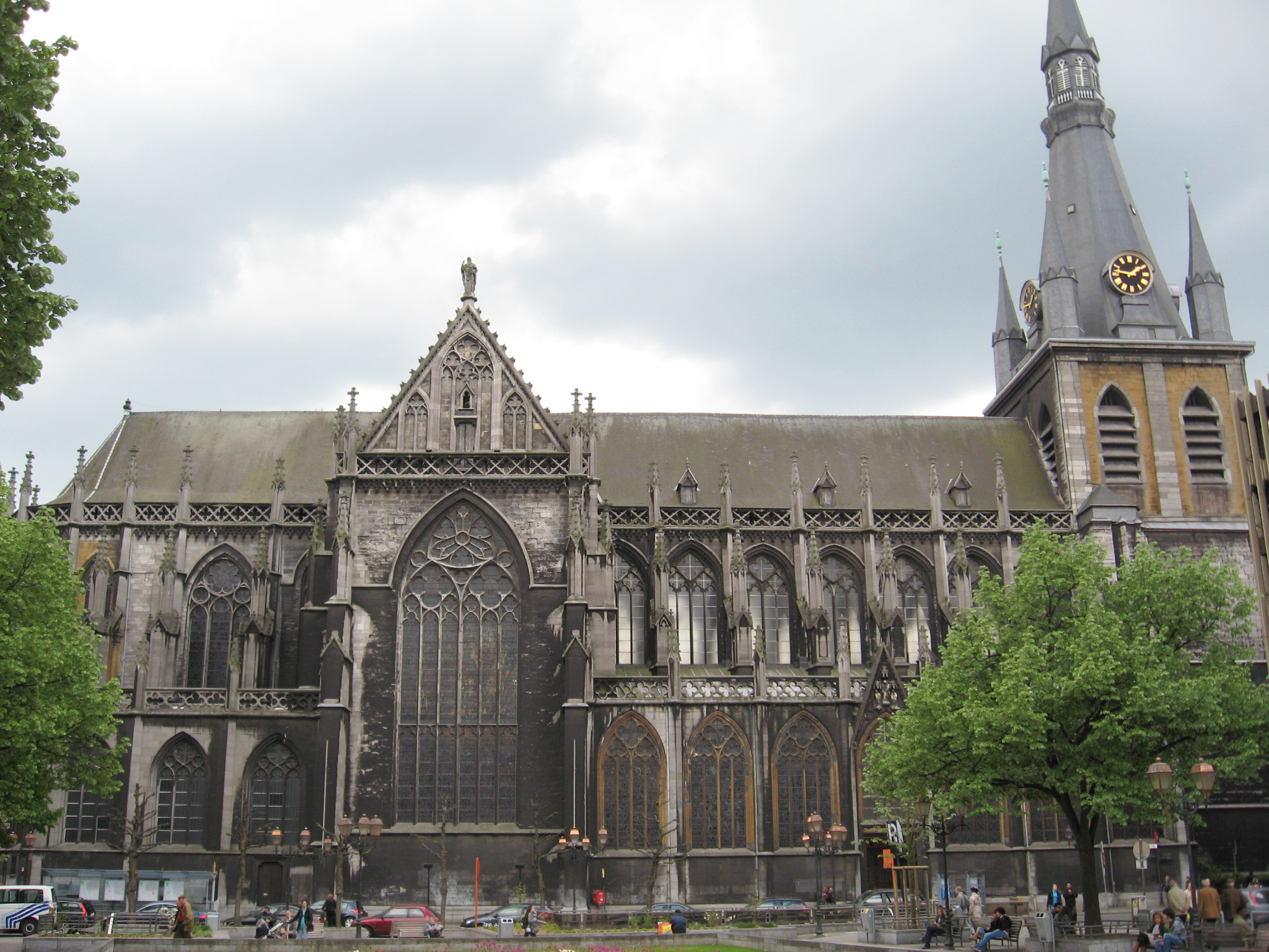 Cathedral of Saint Paul in Liège, Belgium